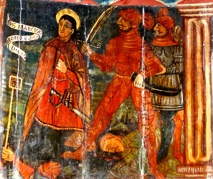 Painting on wood with the death of Saint Mercurial, at church Saint-Mércurial, Vièla de Loron, Midi-Pyrénées, France.